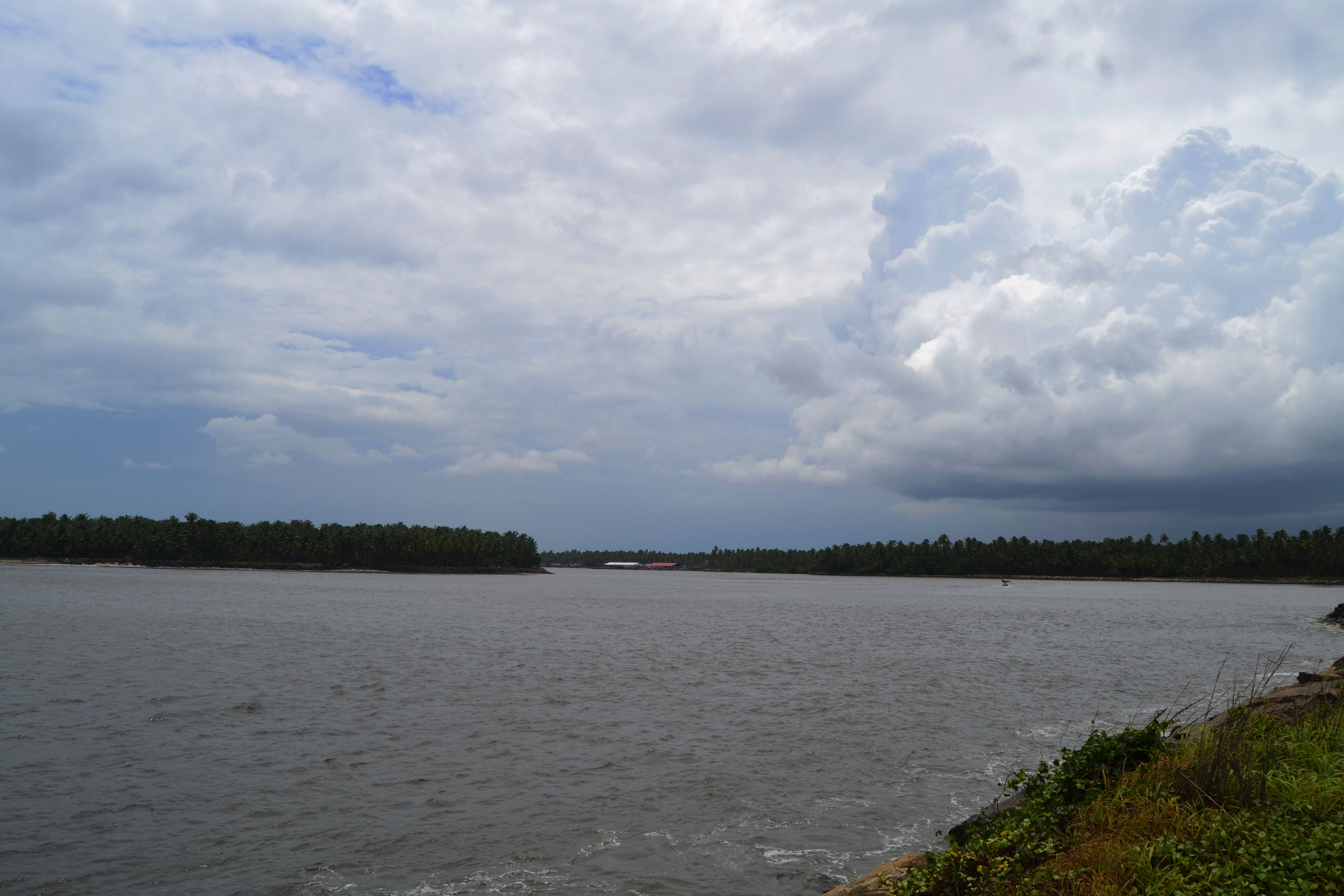 chattuva...beach and sky